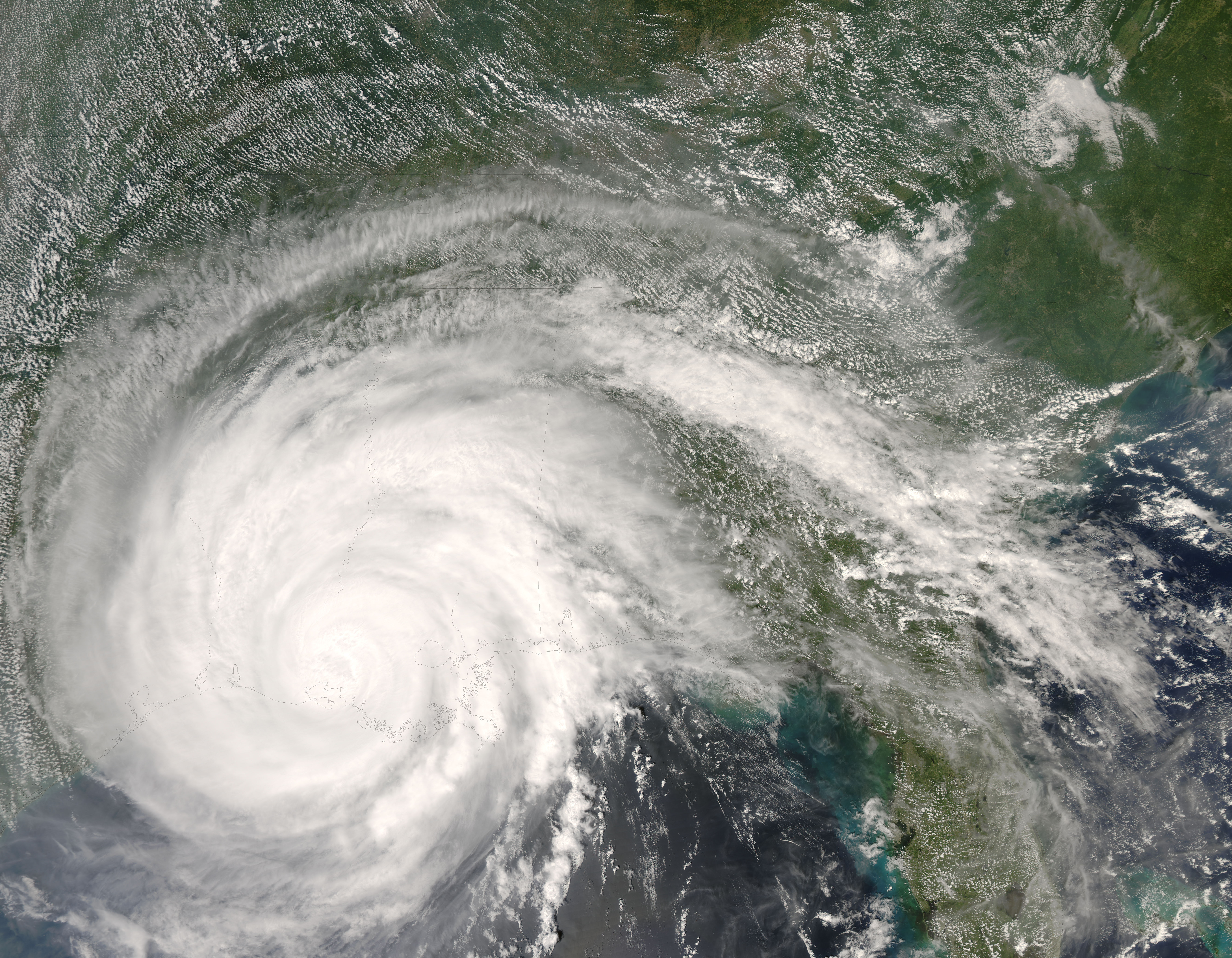 Hurricane Gustav after landfall in Louisiana on September 9 2008.